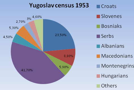 Ethnic composition of the population of Yugoslavia according to the 1953 census. Srpskohrvatski / српскохрватски: Narodni sastav stanovništva Jugoslavije prema popisu stanovništva iz 1953. godine